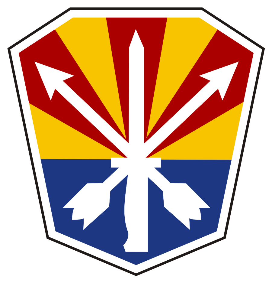 Arizona ArNG Shoulder Sleeve